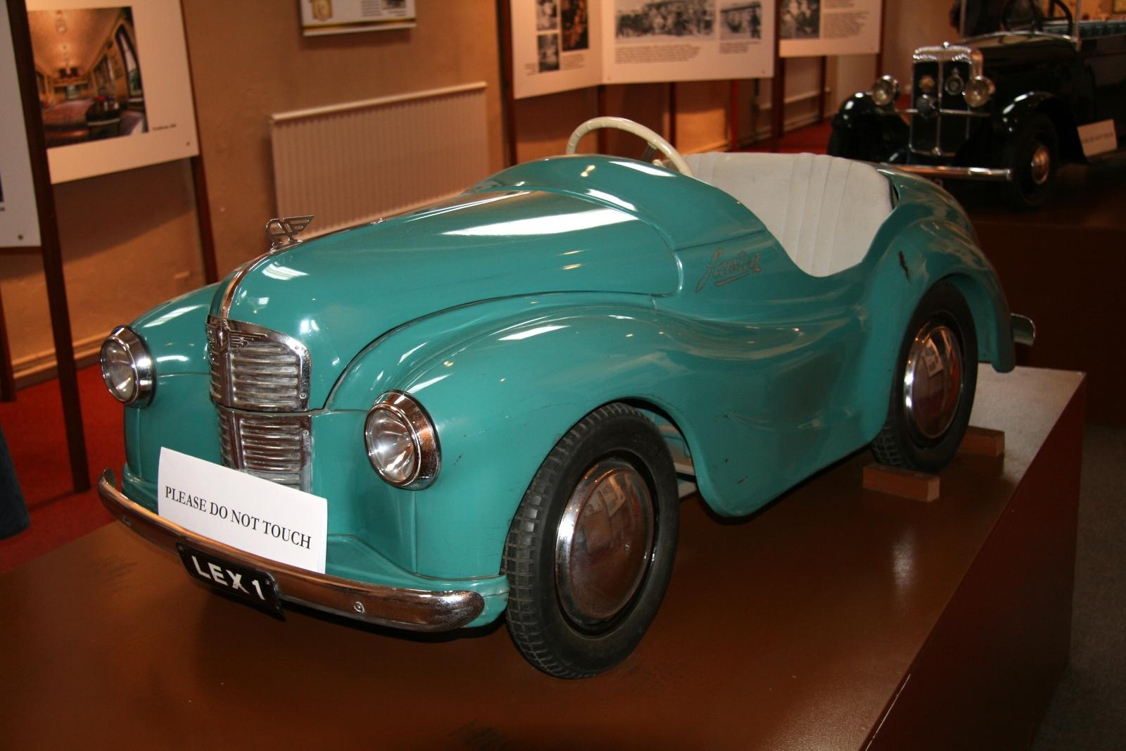 The Norfolk retreat of HM The Queen. Sandringham is the much-loved country retreat of Her Majesty The Queen, and has been the private home of four generations of British monarchs since 1862. The house, set in 24 hectares of stunning gardens, is perhaps the most famous stately home in Norfolk and is at the heart of the 8,000-hectare Sandringham Estate, 240 hectares of which make up the woodland and heath of the Country Park. The Museum at Sandringham holds an extraordinary collection ranging from the very large - the 1939 Merryweather fire engine - to the very small - tiny Indian doll dancers in the Curio Cupboard - and from the grand - gifts in pearl and exotic hardwoods given to The Queen on State Visits abroad - to the personal - the clock used in the Royal Pigeon Lofts at Sandringham to time Her Majesty's racing pigeons. It is housed in the former coach houses and stable block which, over the years have also been used as police post, fire brigade station, Carving School and Royal garages.